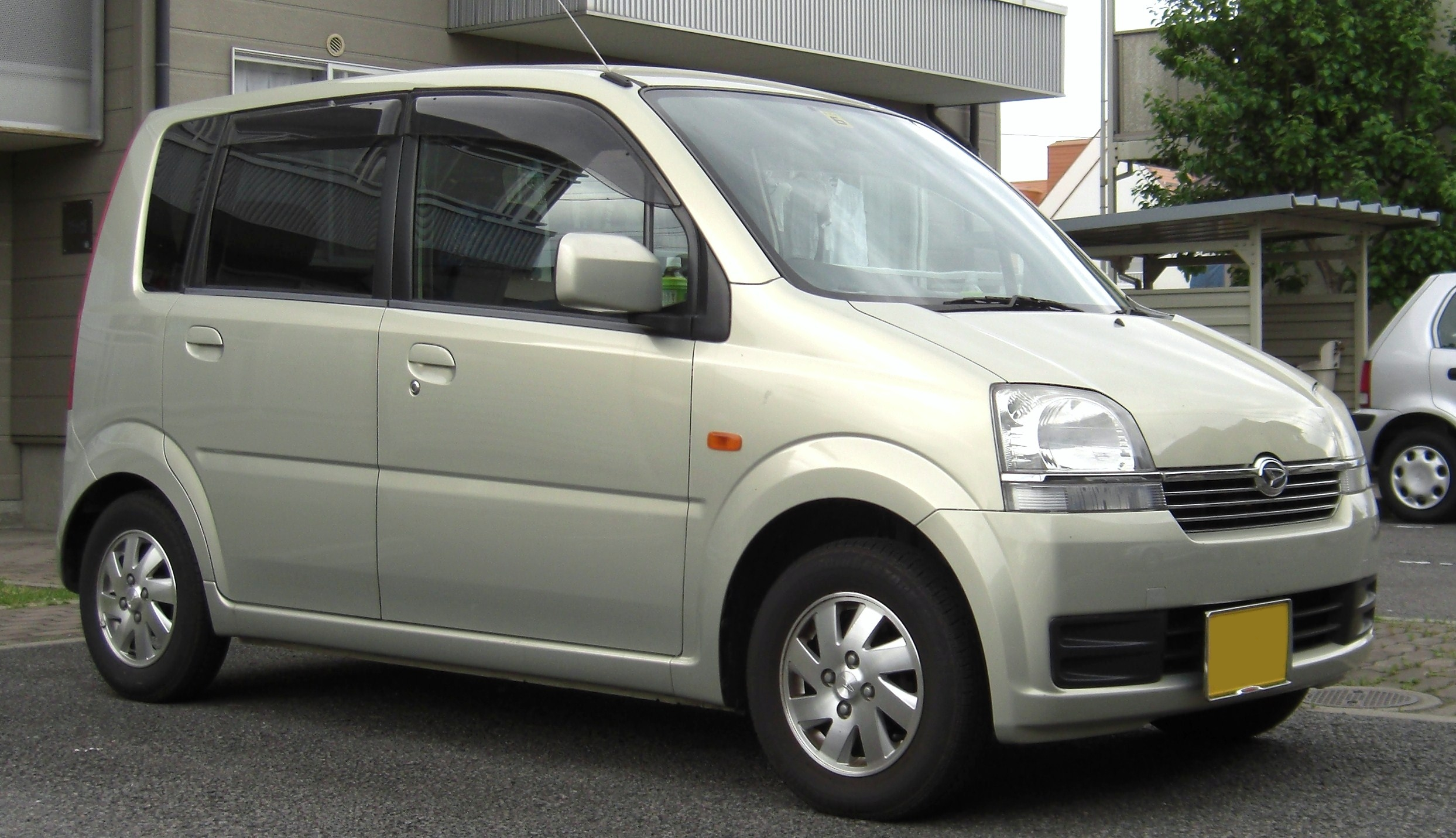 Daihatsu Move